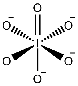 The orthoperiodate ion